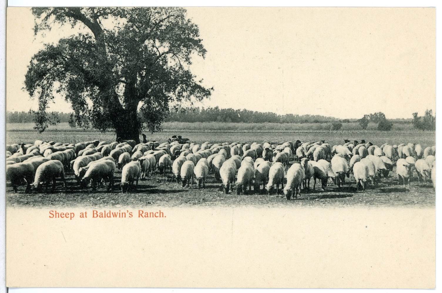 This postcard is from publisher Brück & Sohn in Meißen ( This postcard has a unique number 04940 and is available in a higher resolution at the publisher. This images was uploaded in a cooperation project between Wikipedians and the publisher.